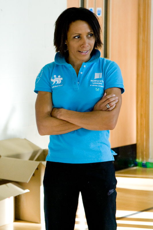 Taken at the Greendown school in Swindon on Wednesday 19th November 2008 by Kris Talikowski as part of a sports in schools initiative